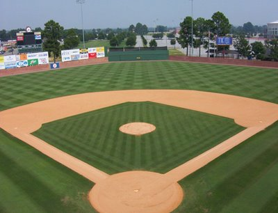 Golden Park, in Columbus, Georgia, United States.